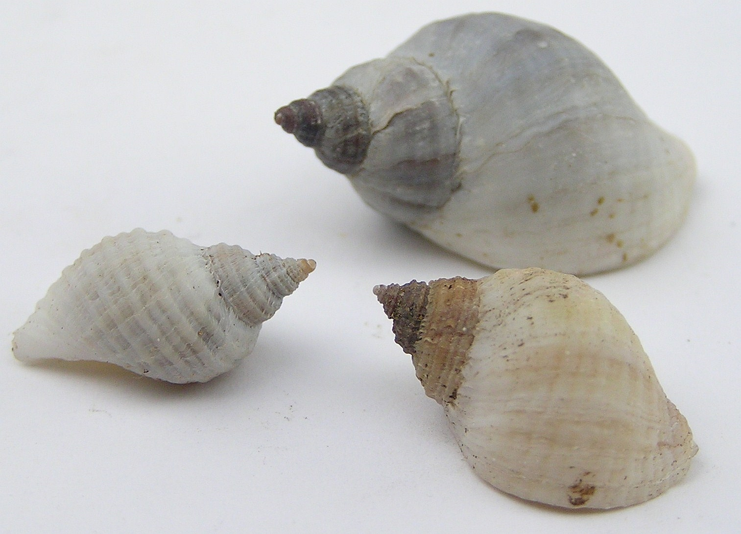 Nucella lapillus (Linnaeus, 1758) , a murex snail in the family Muricidae; Galicia, Spain